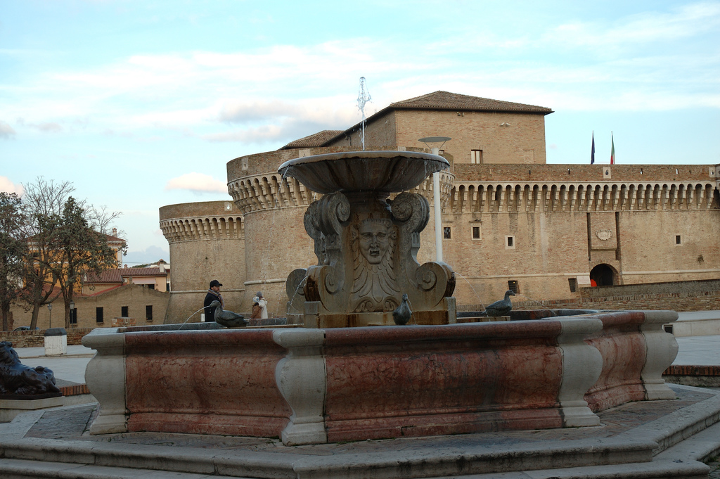 Senigallia, Marche,Italia